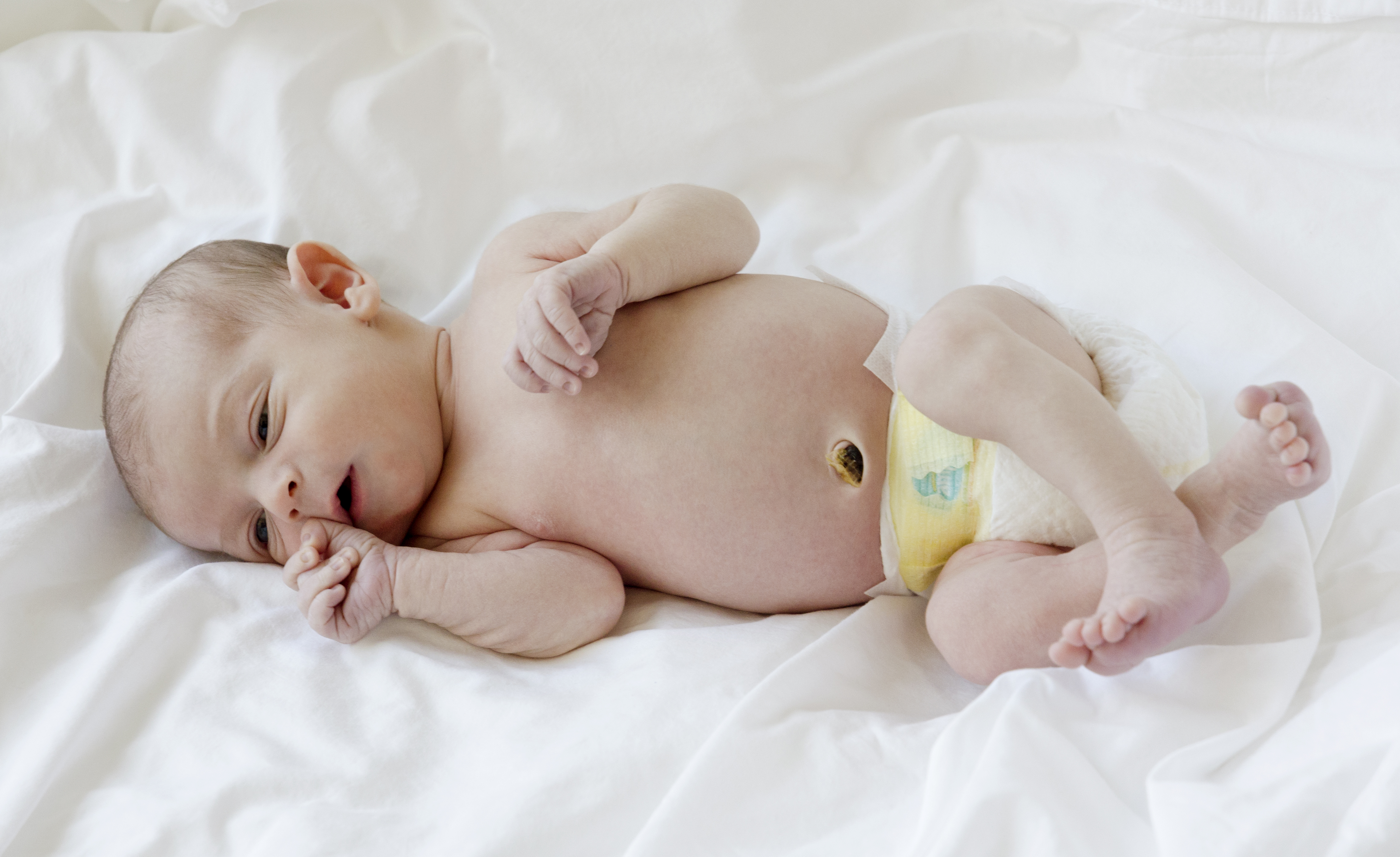 A human male baby, just days after its birth, with its umbilical cord stump still attached.